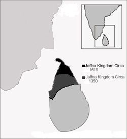 This is the map of the Jaffna Kingdom in present day Sri Lanka at its greatest extend and just before its capitulation to the Portuguese Empire. It is made from the follwing sources